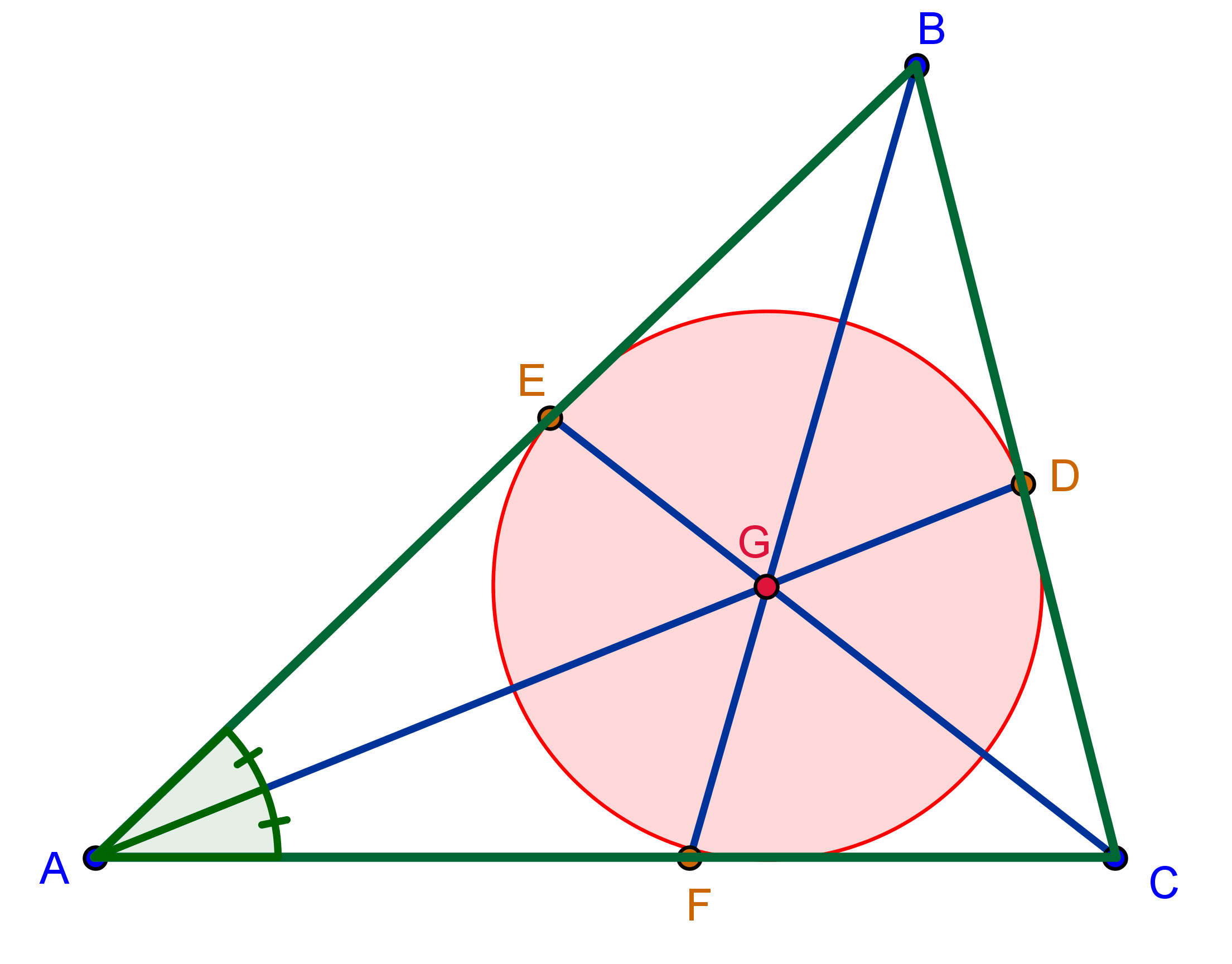 Tree angle bisectors of a triangle meets in a inside point, which is center of an incircle.